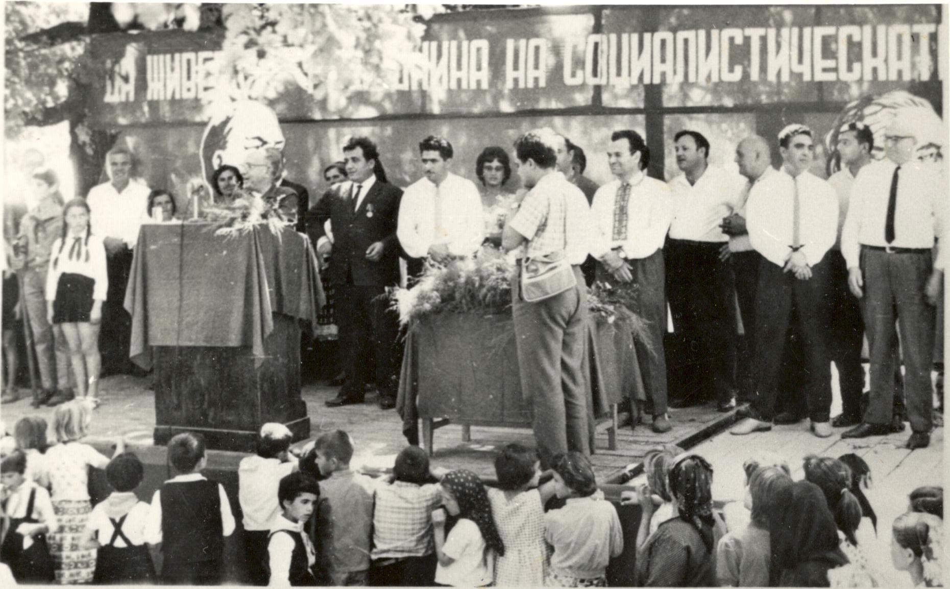 A Soviet delegation at Yuper, Razgrad province during the 20th anniversary of the local Labour Cooperative Agricultural Union.